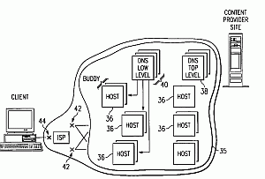 This is a drawing of the invention from the patent involved in the lawsuit that is the subject of Akamai Techs.. Inc. n. Limelight Networks Other information patent drawing